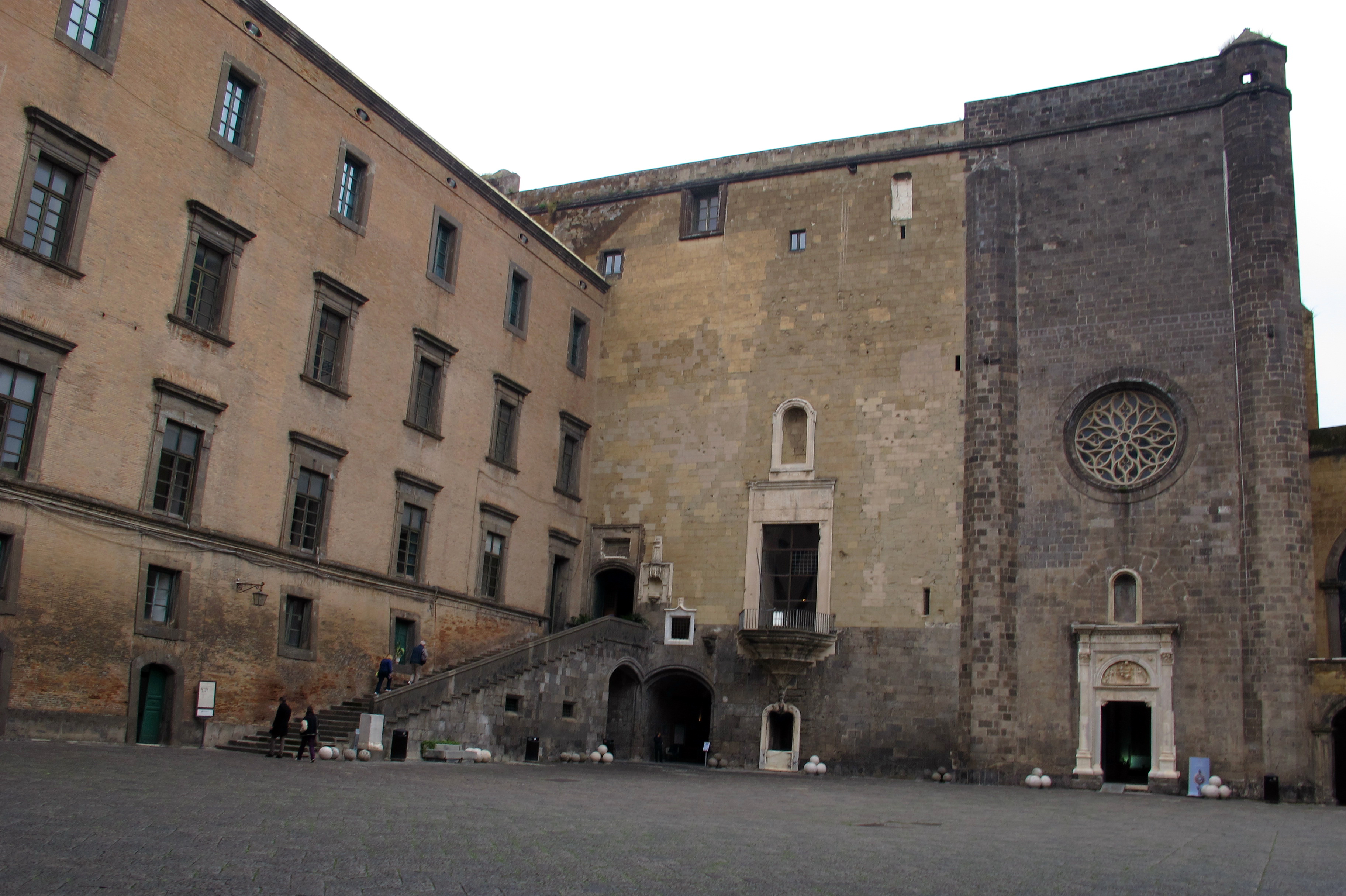 Castel Nuovo (Naples) - Triumphal arch